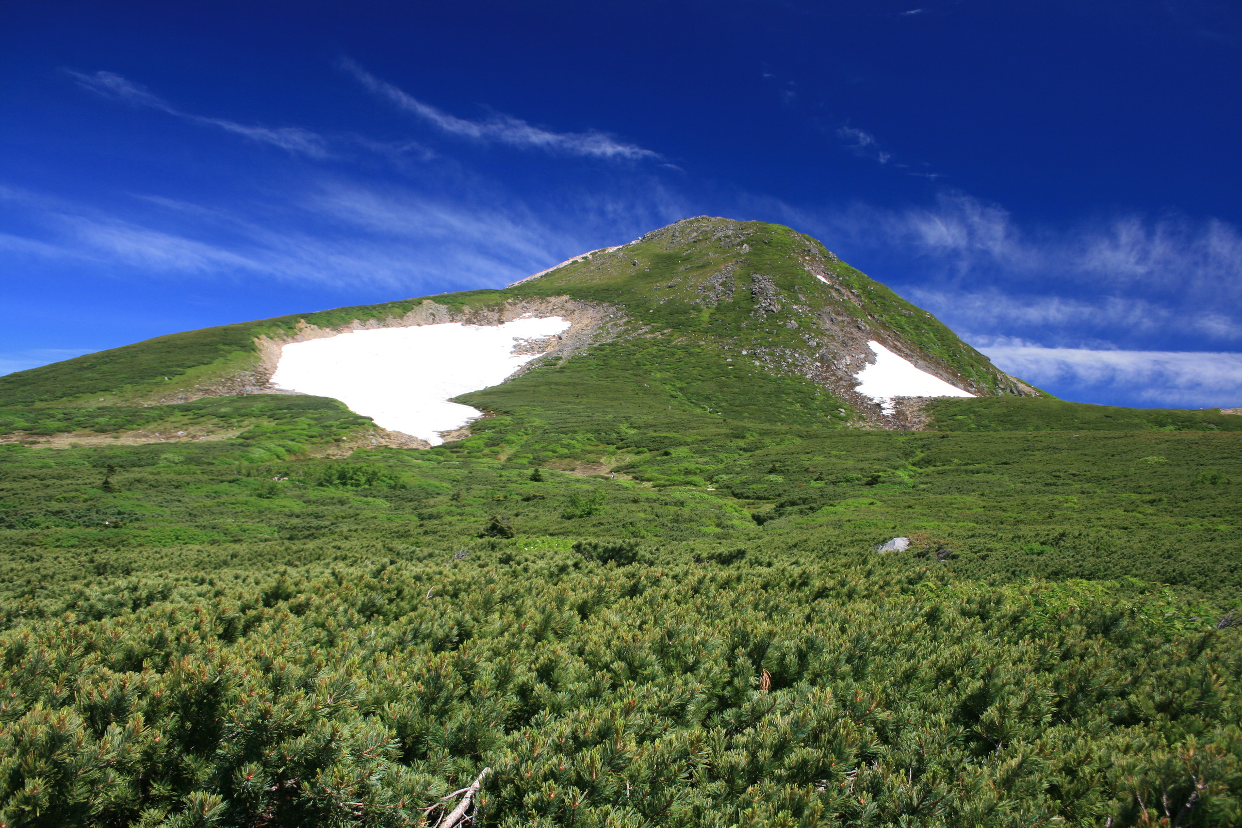 Pinus pumila (Siberian Dwarf Pine) in Mount Haku Murodo, in Japan